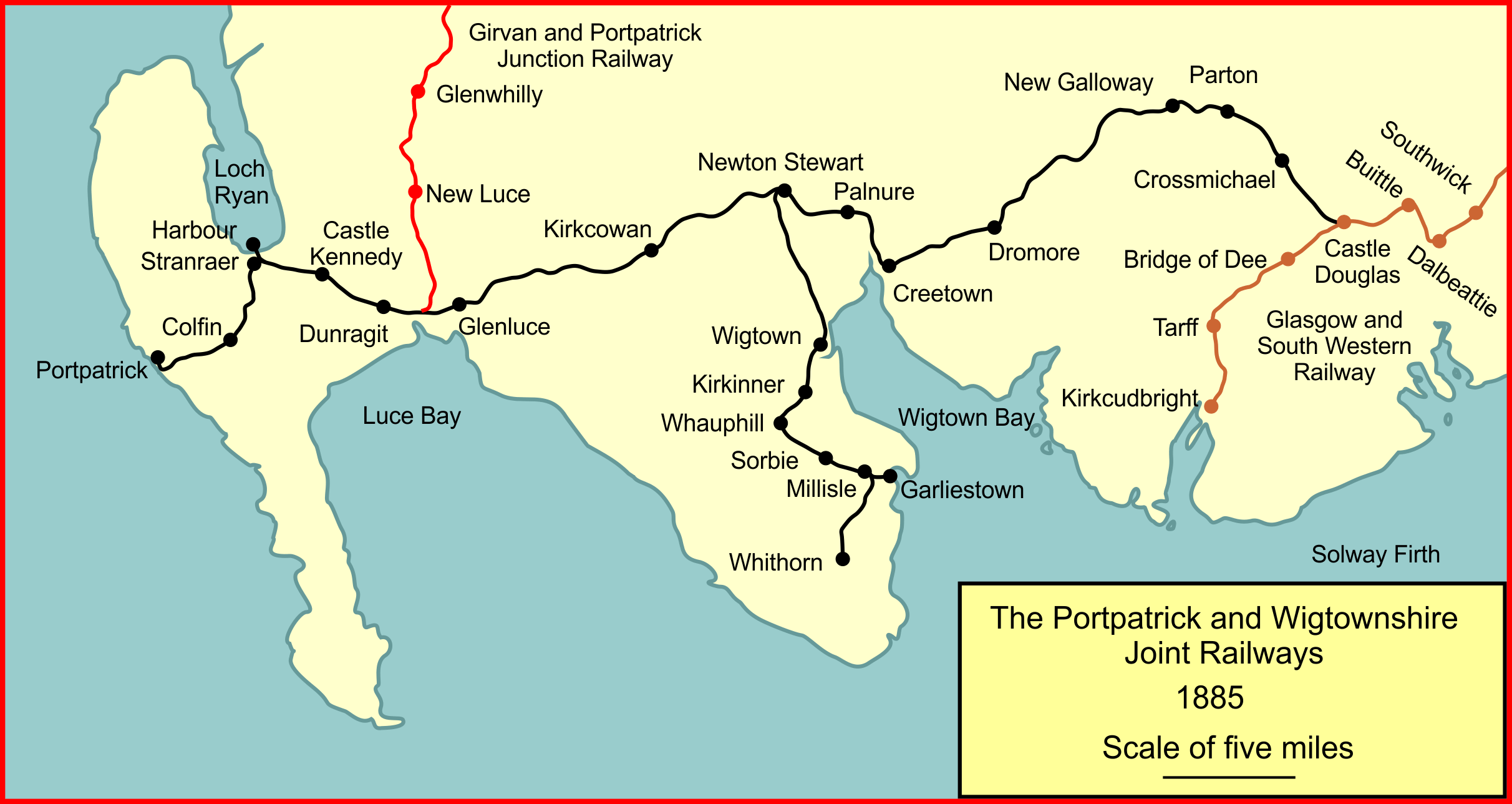 Systen map of Portpatrick and Wigtowshire Joint Railways in 1885